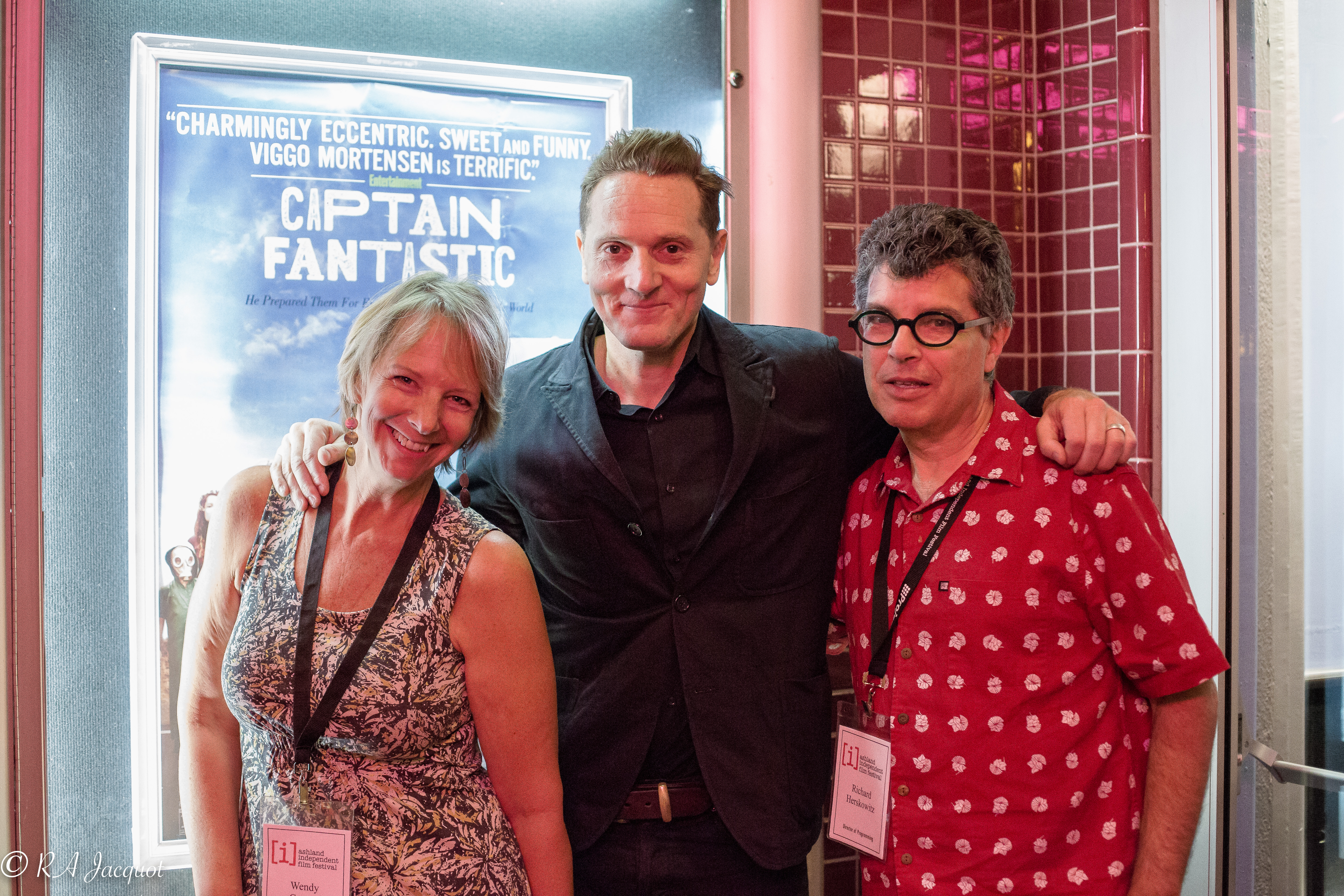 Captain Fantastic Dir Matt Ross; Wendy Conner AIFF Dir. Ops; Richard Herskowitz, AIFF Dir. Program-1.jpg